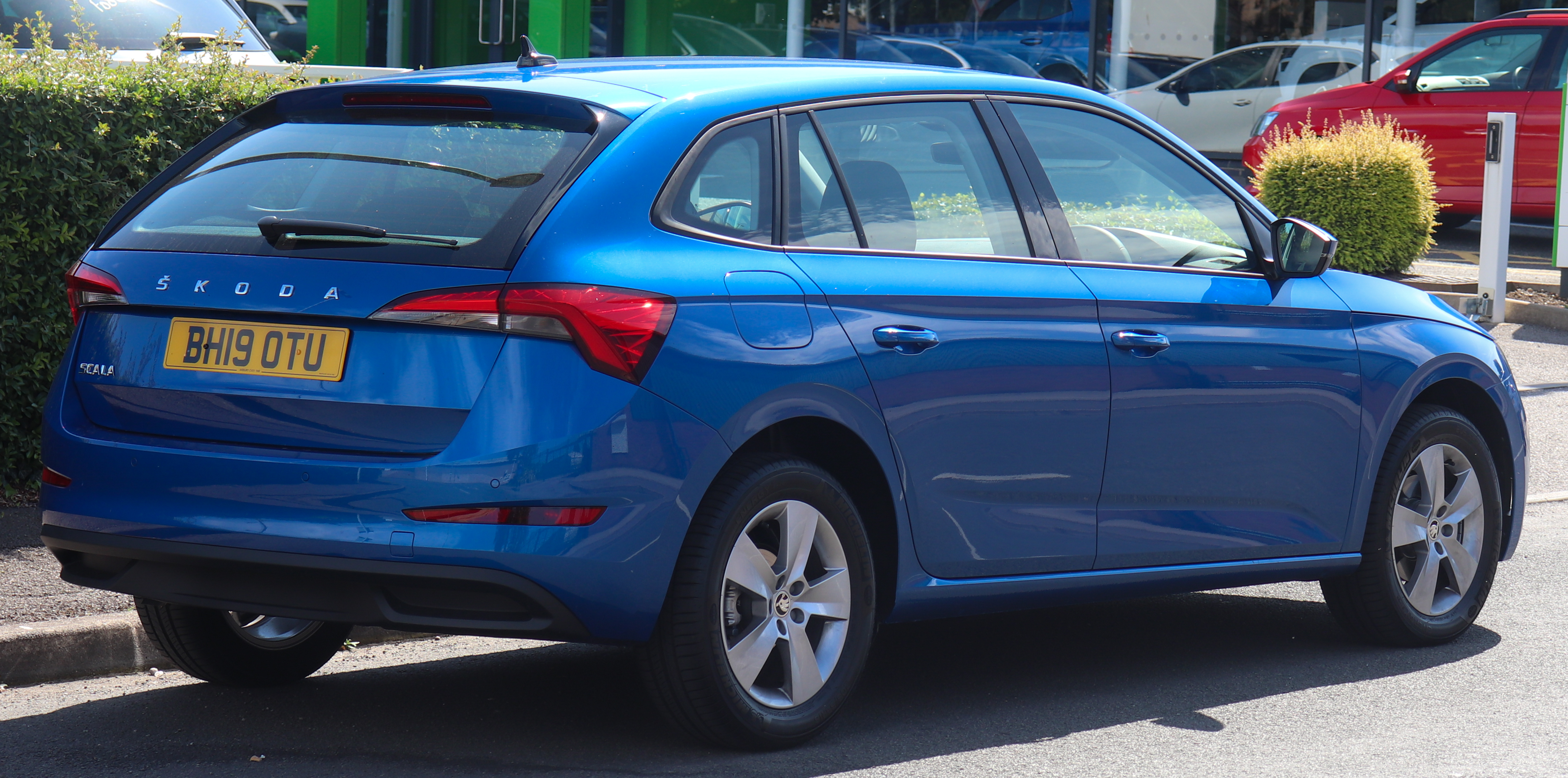 2019 Skoda Scala SE TDi 1.6 Rear Taken in Sydnam, Leamington Spa